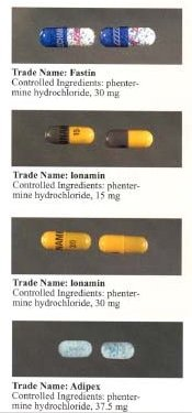 Taken from the U.S. Department of Justice website. [1]